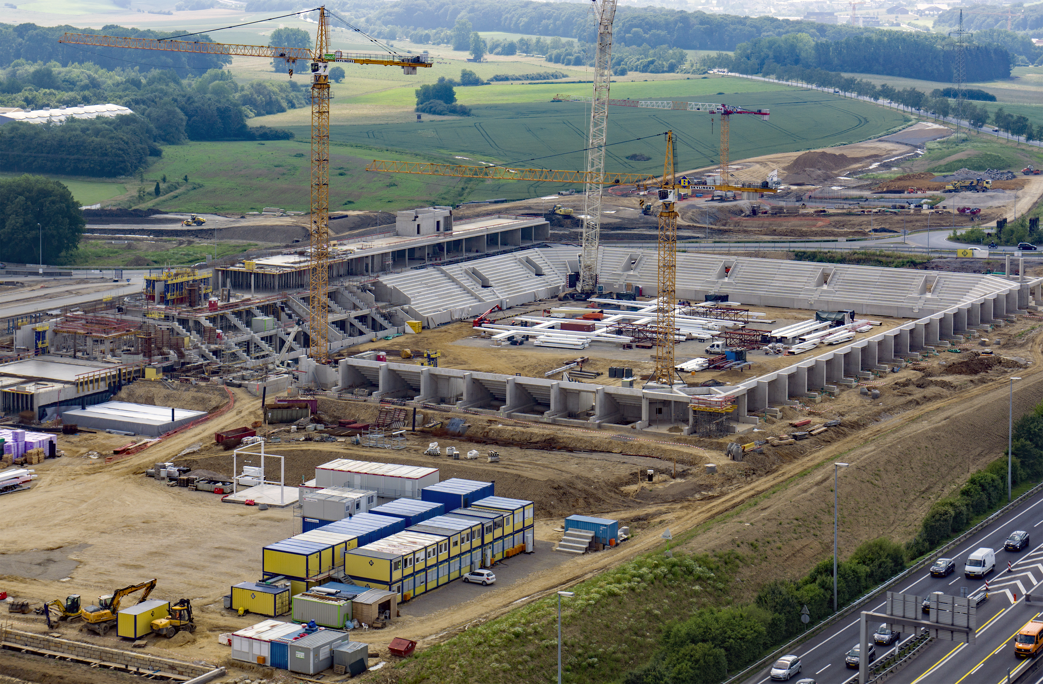 Building site of the national football stadtium in Luxembourg